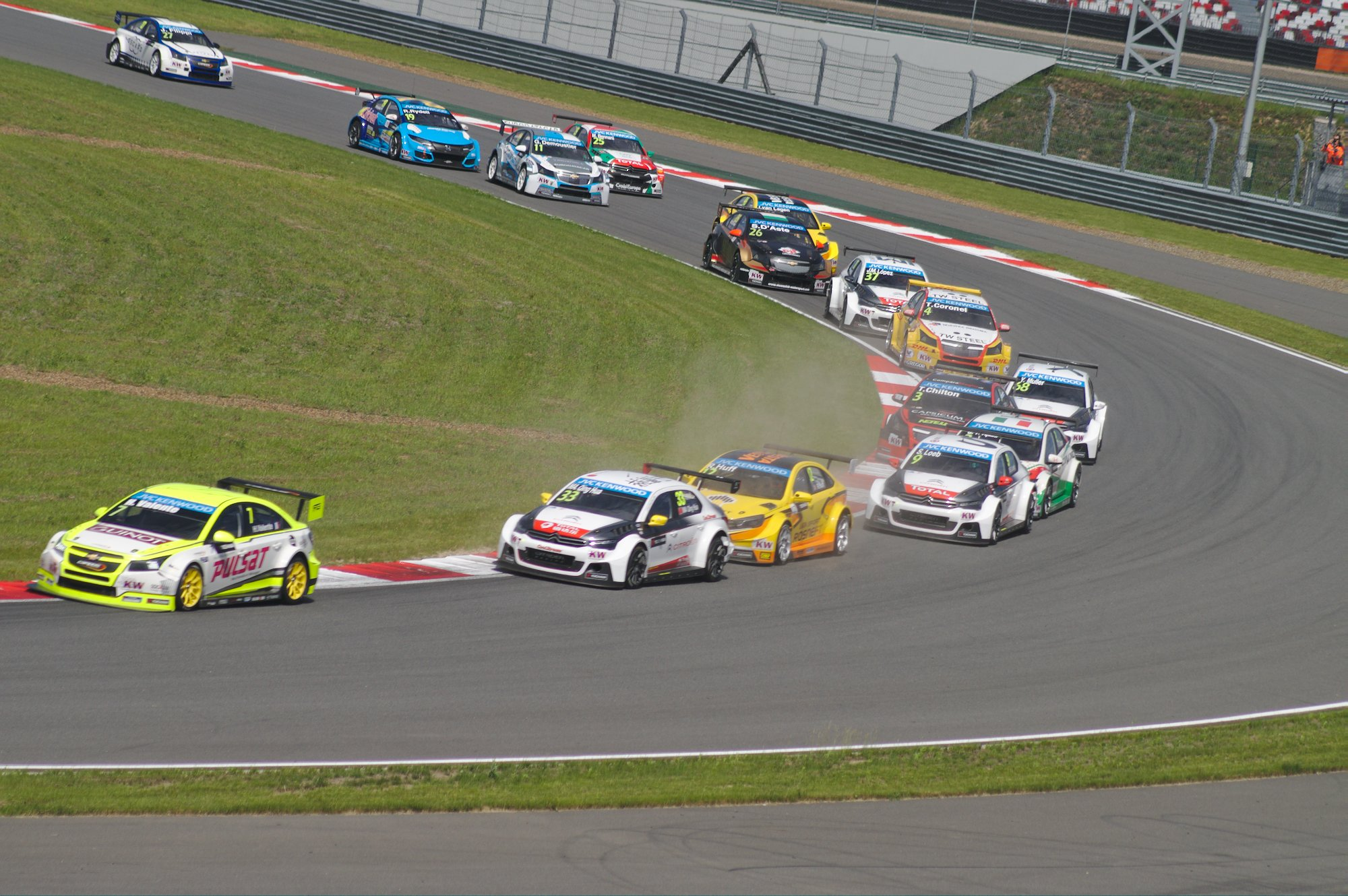 2015 WTCC Race of Russia